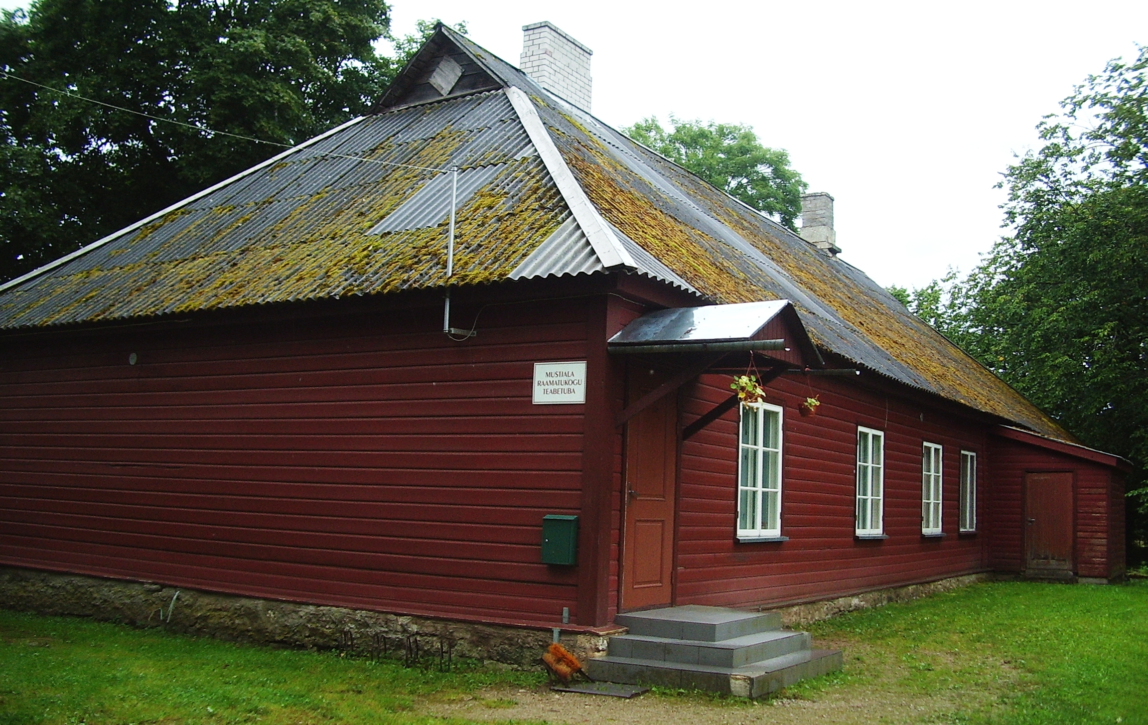 The library of Mustjala (2 Kooli street in Mustjala)